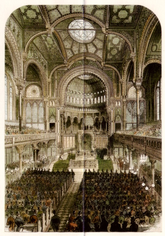 New Synagogue, Berlin, Oranienburger Str. - The main room, destroyed in 1943. Wood cut.